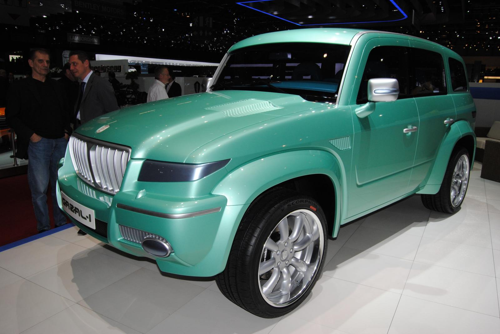 Gazal 1 concept car, created by a group of students at King Saud University, based on a Mercedes G Class platform